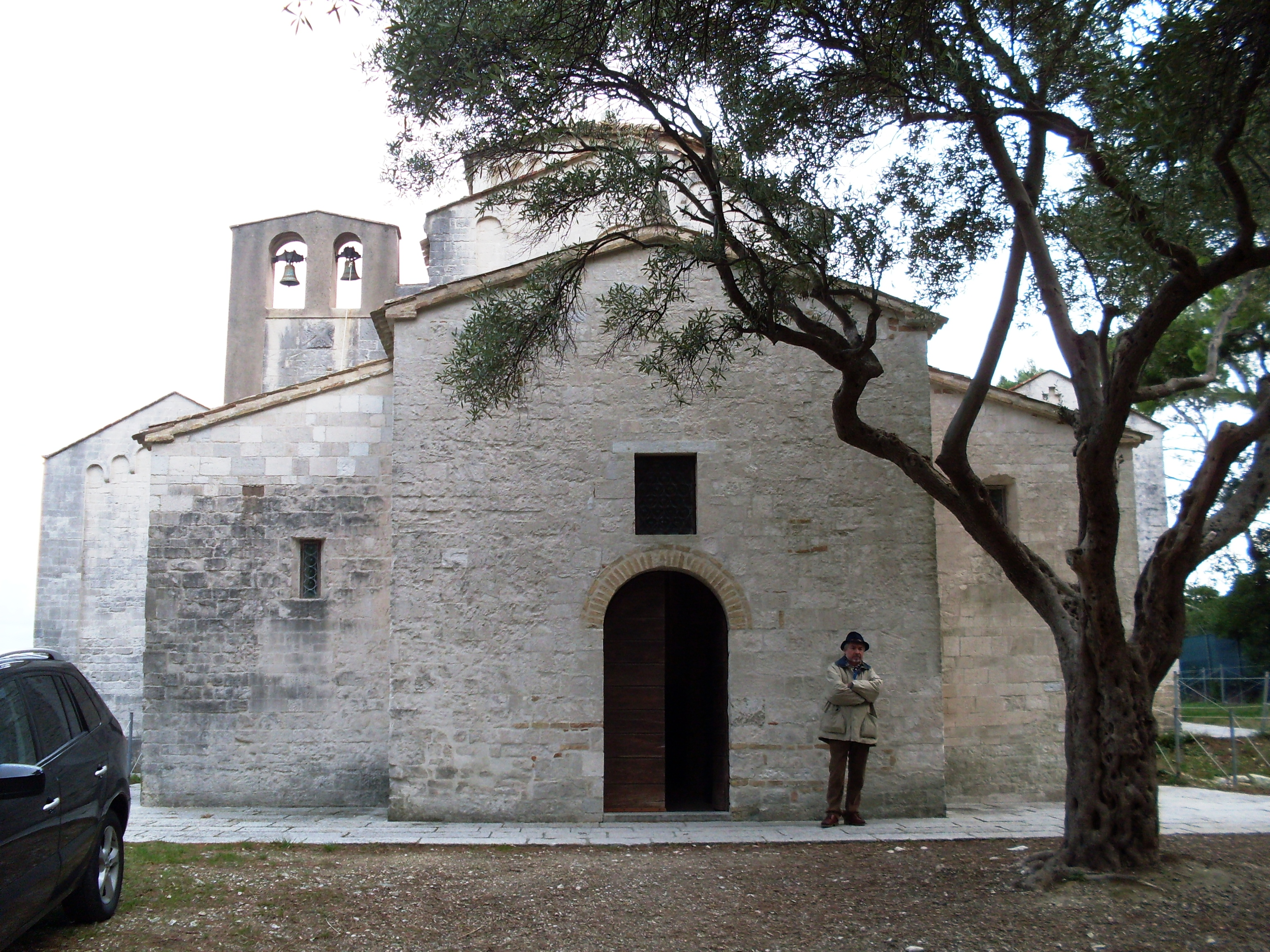 Romanesque church - Ancona - Portonovo - Italy